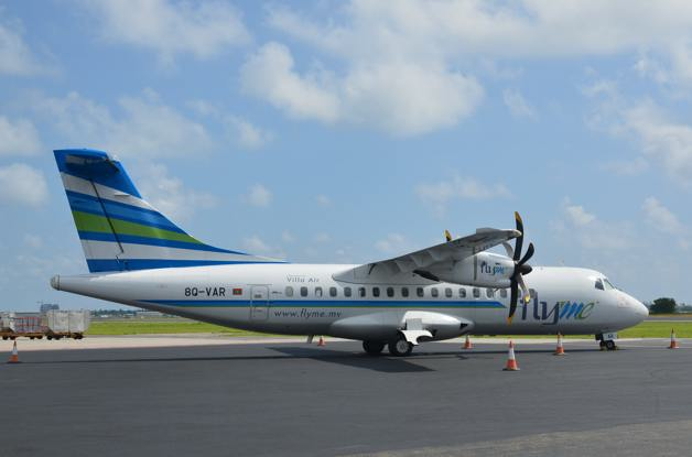 FlyMe ATR42